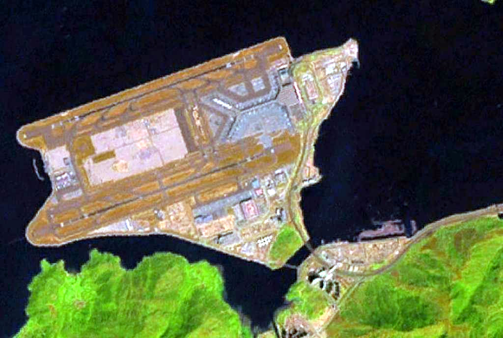 Satellite Image of Hong Kong International Airport by NASA World Wind